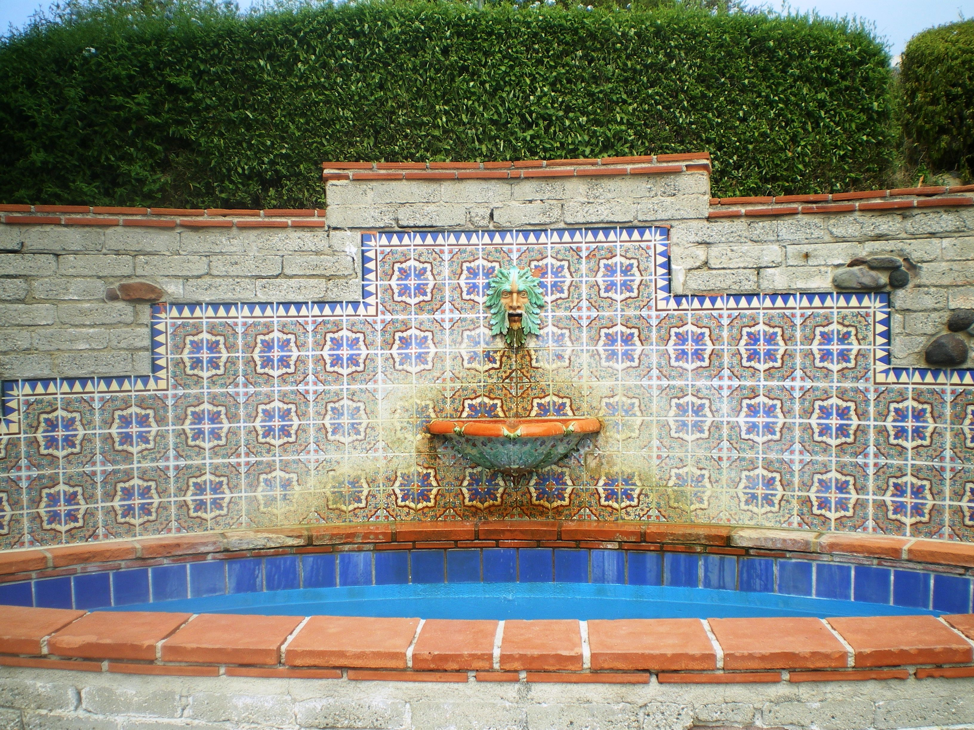 Neptune fountain at Adamson House, Pacific Coast Highway, Malibu, California